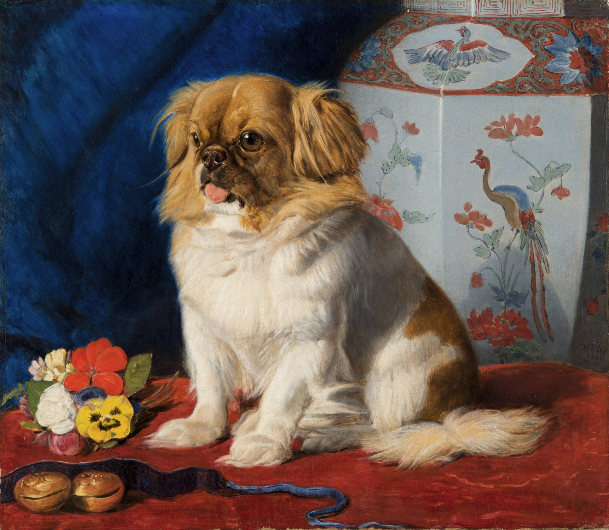 Looty was a Pekinese Lion dog